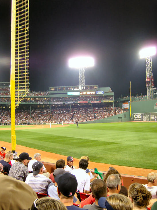 Pesky's Pole On Sept 26th 2007